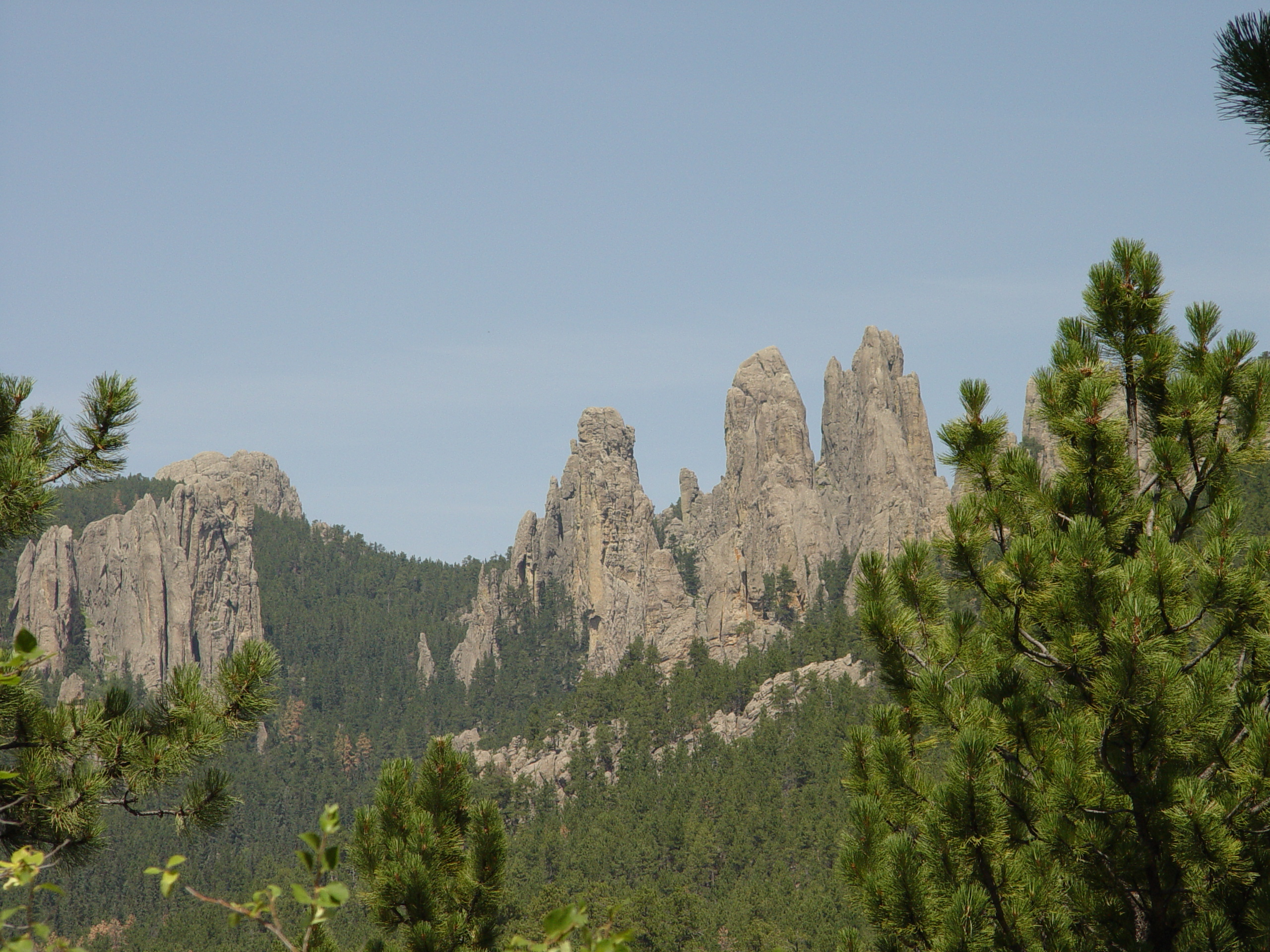 The Needles in Custer State Park, South Dakota